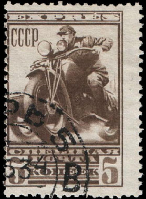 Stamp of the Soviet Union, Express Mail, a motorcycle, 1932, CPA 387.